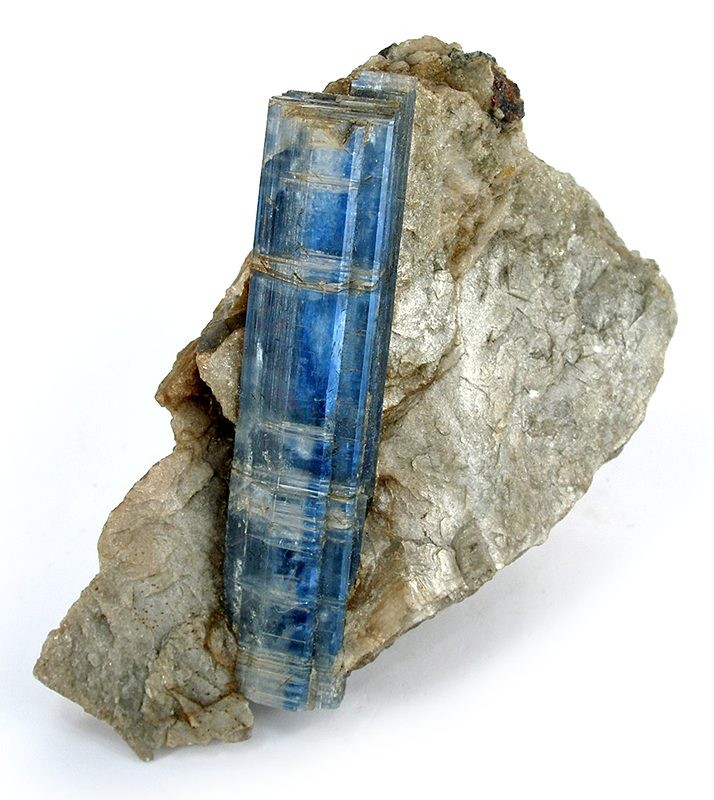 Kyanite Locality: Central St Gotthard Massif, Leventina, Ticino (Tessin), Switzerland (Locality at ) Size: 7.8 x 5.2 x 2.7 cm. This specimen features a 6 cm-long, doubly-terminated kyanite in contrasting silvery mica matrix, from the classic old locality in Switzerland. The color is outstanding and this is a good kyanite by any standard, modern and Brazilian included. I'd not seen so good from Switzerland before and couldn't believe this when I saw it, but there is an old label on the back to prove it. From the rarities suite of Lawrence Conklin, who exchanged it from the American Museum of Natural History.